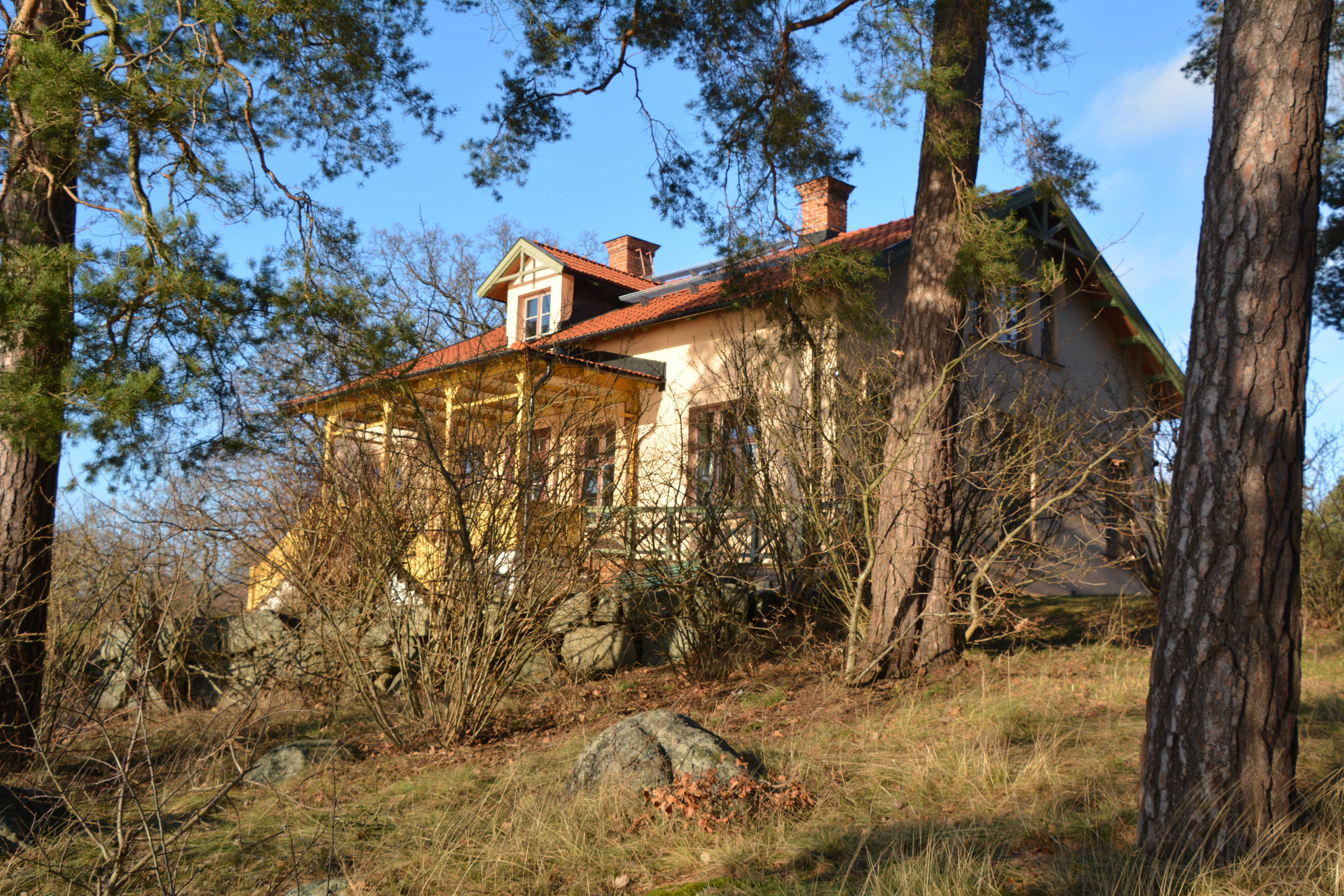 Ditrektörsvillan I Kyrkhamn, Hässelby, Stockholm